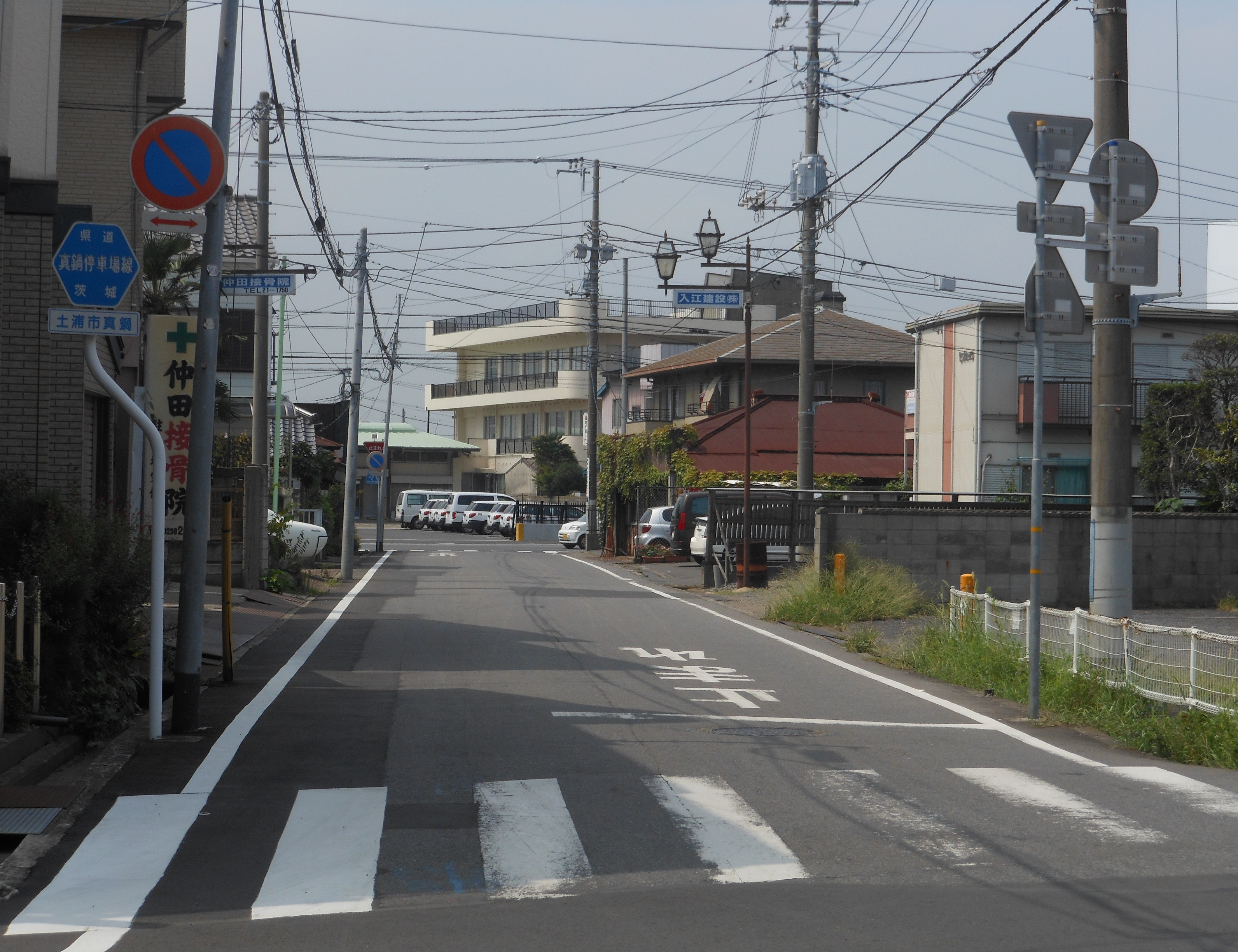 This is a scene of Ibaraki prefectural road No.344 Manabe station line in Manabe, Tsuchiura, Ibaraki, Japan.